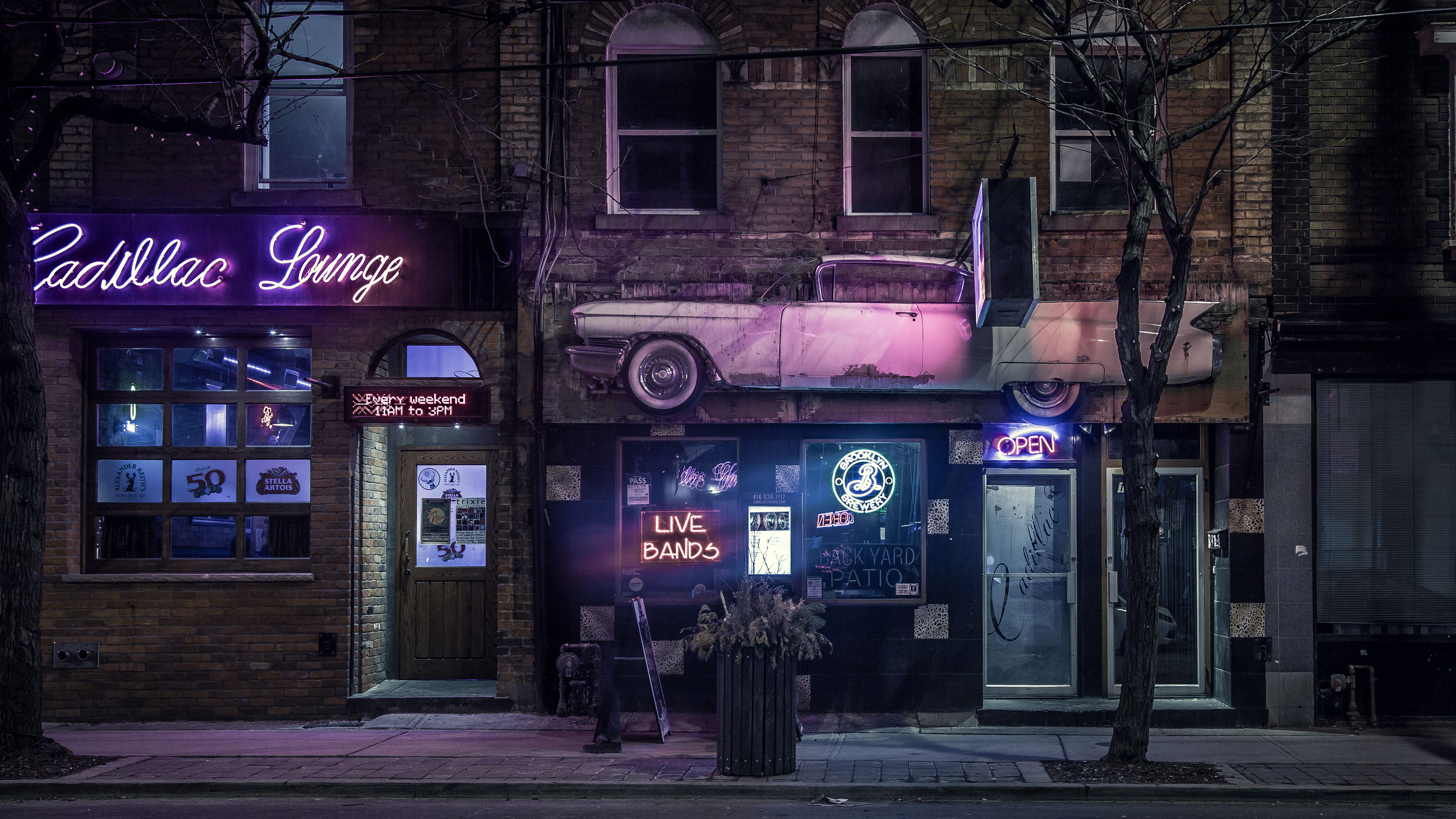 Parkdale, Toronto, Canada